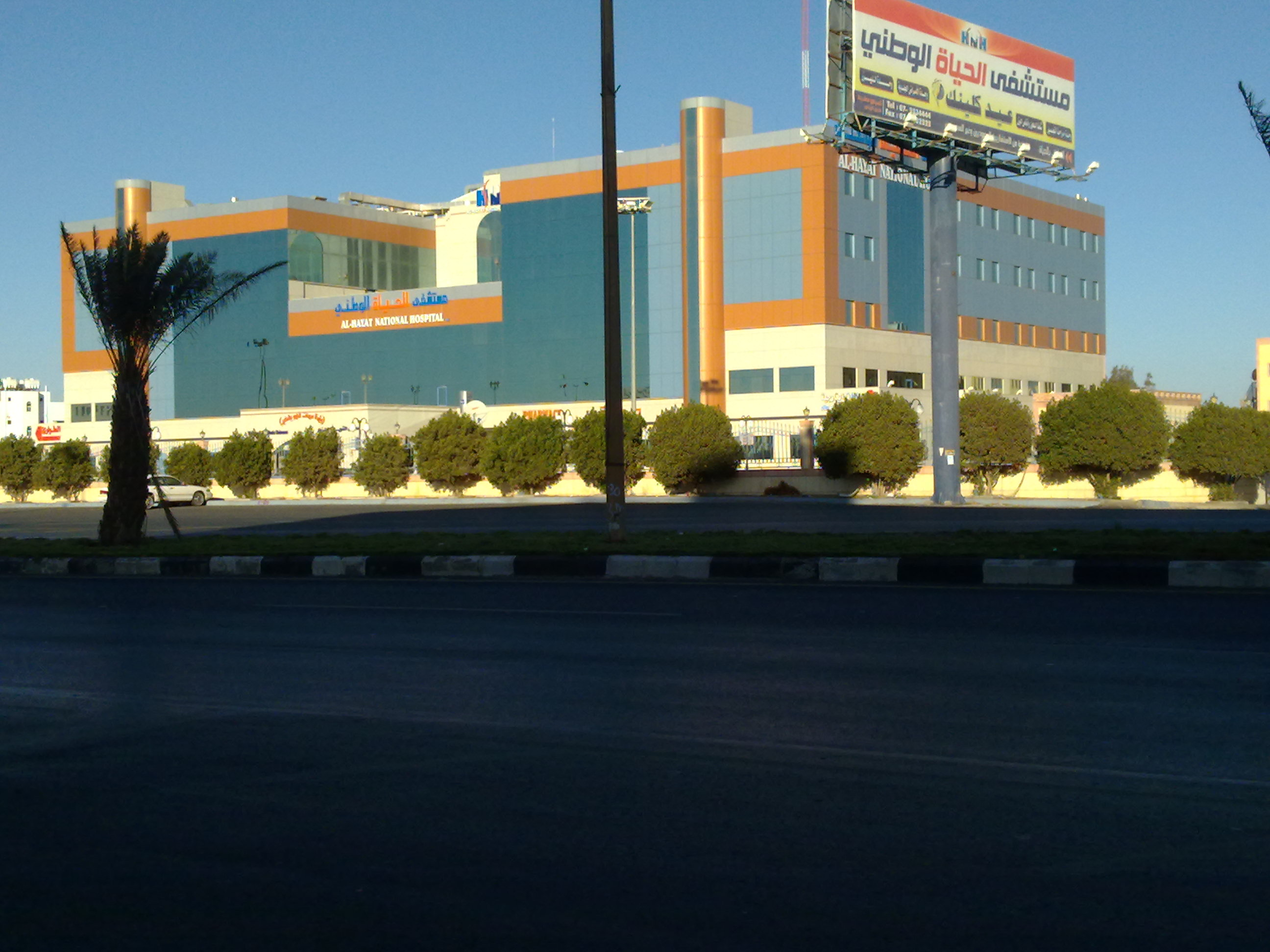 ALhayat Hospital in Khamis Mushayt